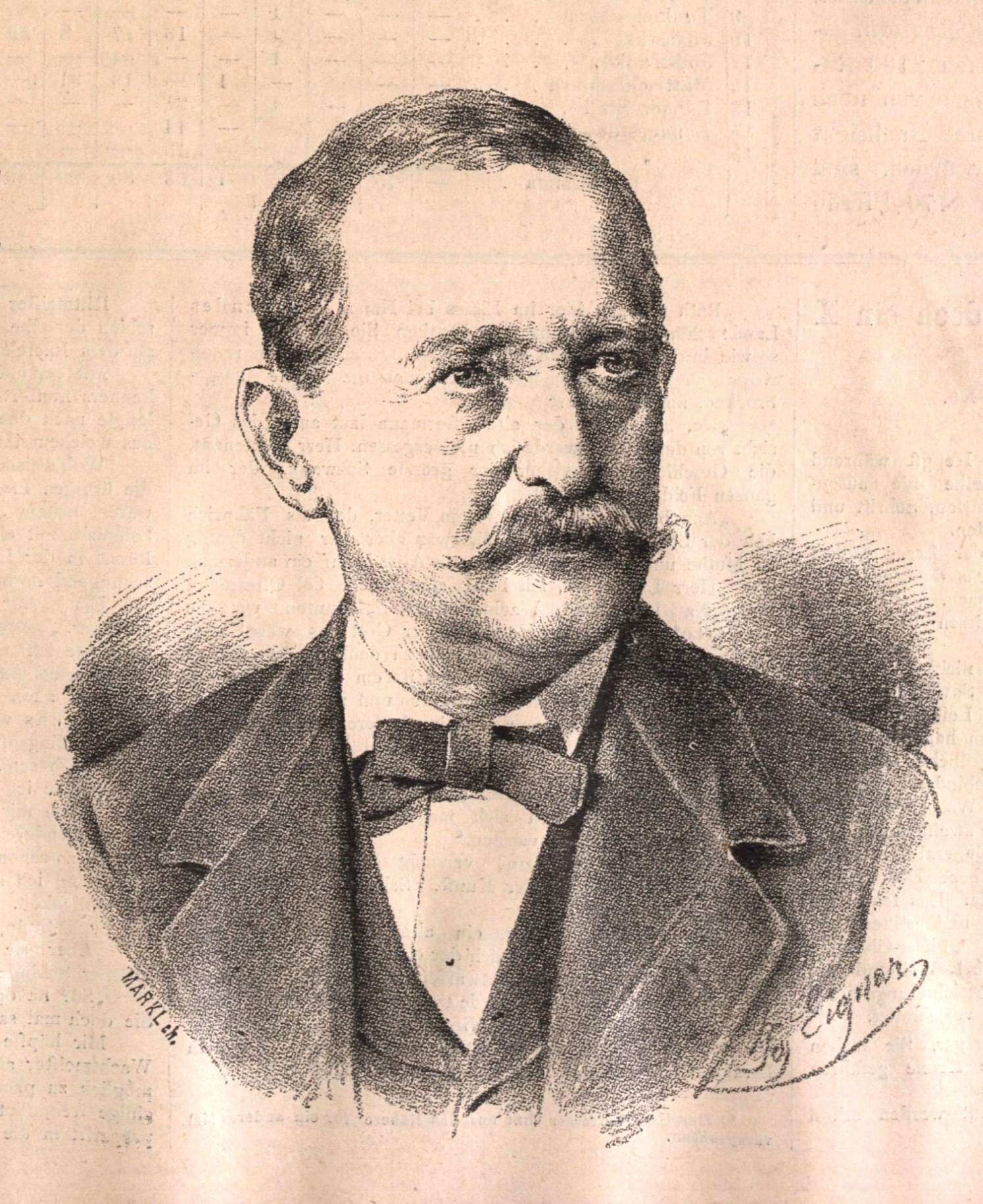 Portrait of Gustav Adolph von Dassel (1816-1894), Prussian horse-breeder from Trakehnen.